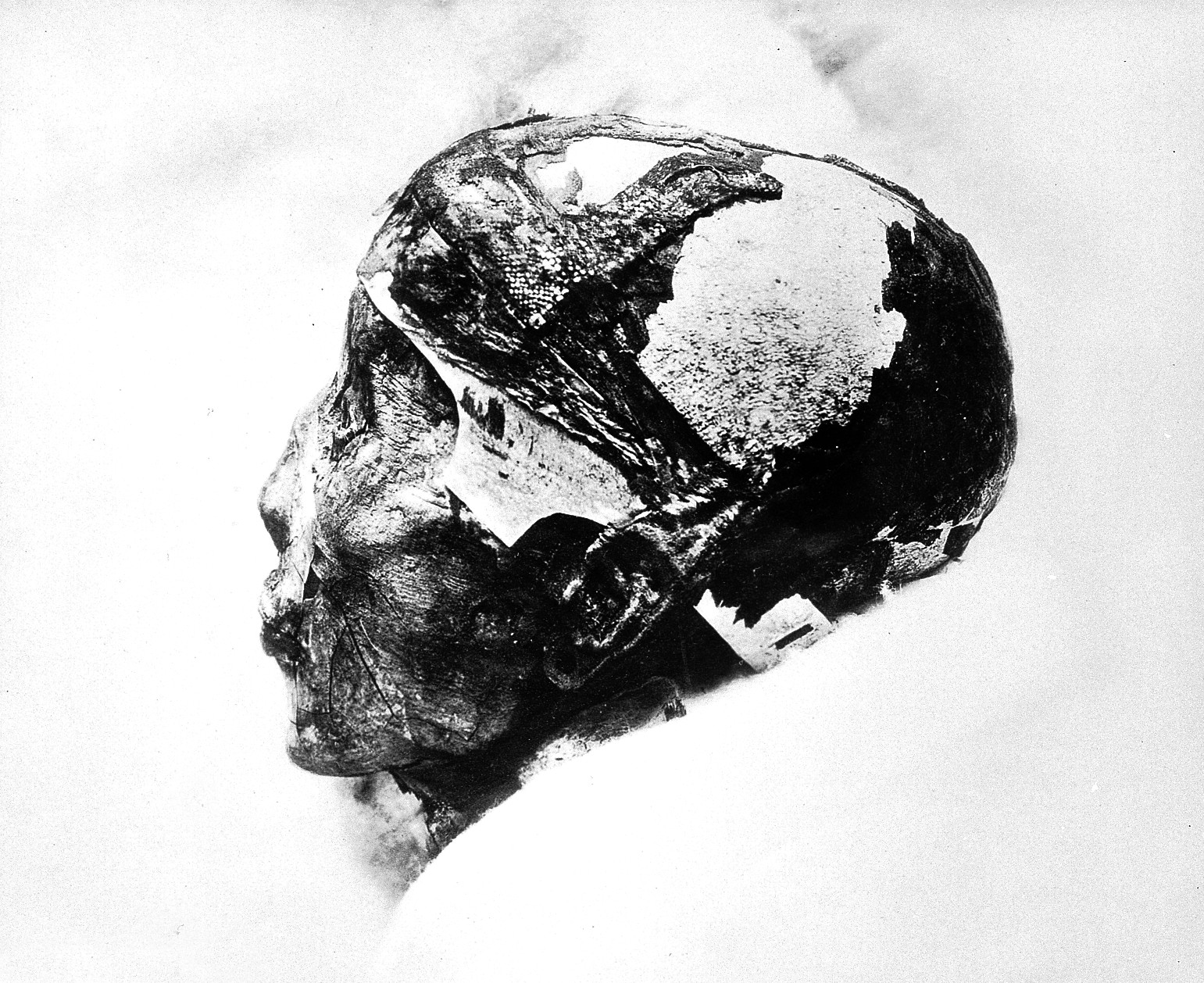 A mummified human skull; inscribed on verso "Tutankh-amen revealed after 3.000 years. Daily Mirror, London, 5th July 1926" Iconographic Collections Keywords: Tutankhamen